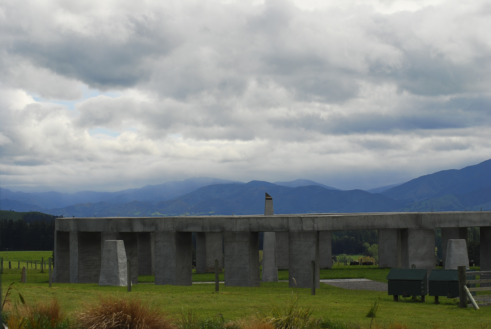 Stonehenge Aotearoa exterior. By Mikhail Esteves (